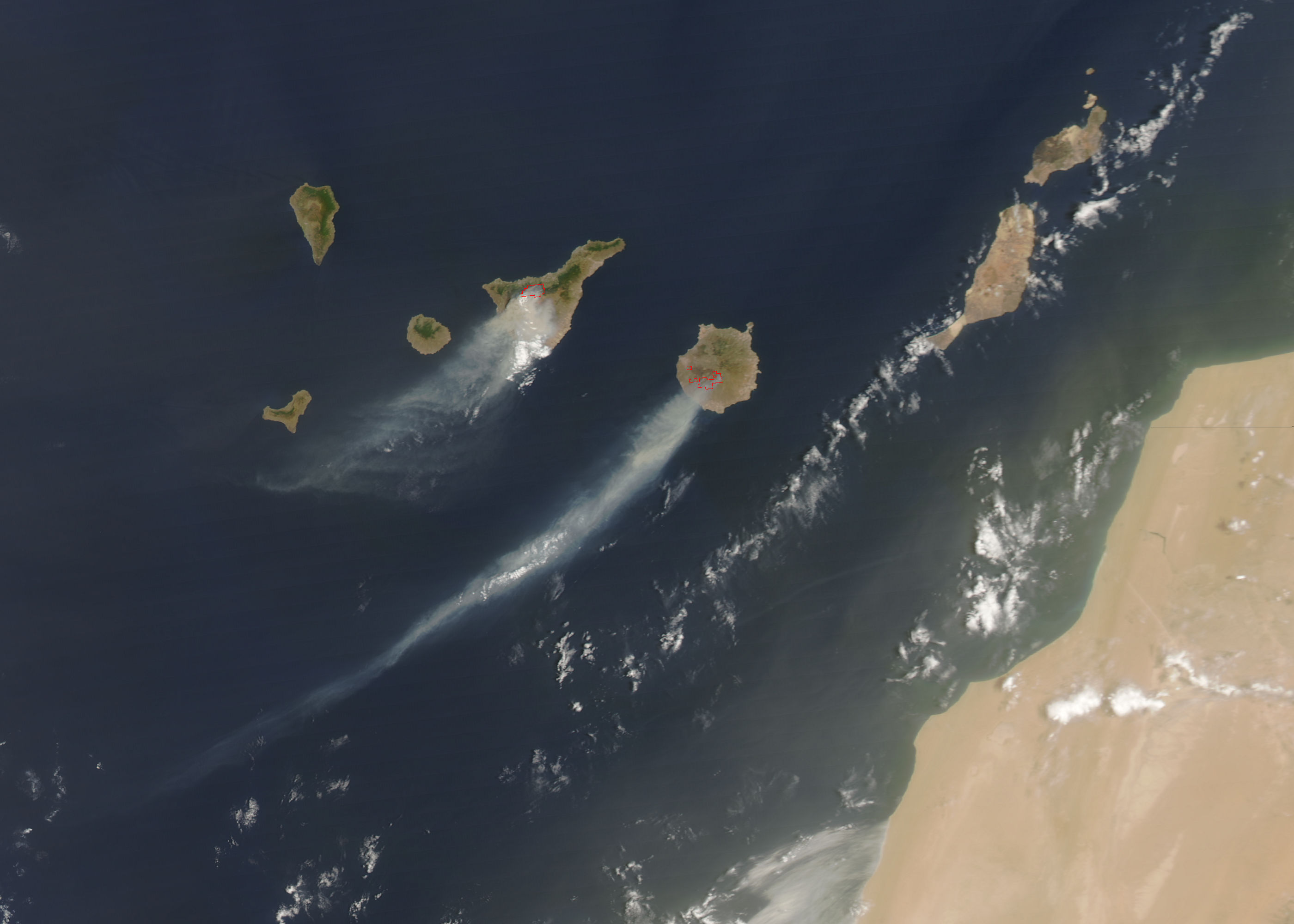 Fires in the Canary Islands Two large forest fires raged on the Canary Islands on the afternoon of July 30, 2007, when the Moderate Resolution Imaging Spectroradiometer (MODIS) on NASA’s Aqua satellite captured this photo-like image. Clusters of red dots mark out the locations of the fires on the islands of Tenerife (left) and Gran Canaria (right). More than 2,000 people were evacuated from the fire on Gran Canaria, which had burned through 8,645 acres of woodland, reported the Associated Press on July 30. Thick plumes of smoke blow southwest over the Atlantic Ocean from the fires. The desert coast of Western Sahara and Morocco makes up the right edge of the image. A faint tan veil of dust hangs over the ocean near the coast.